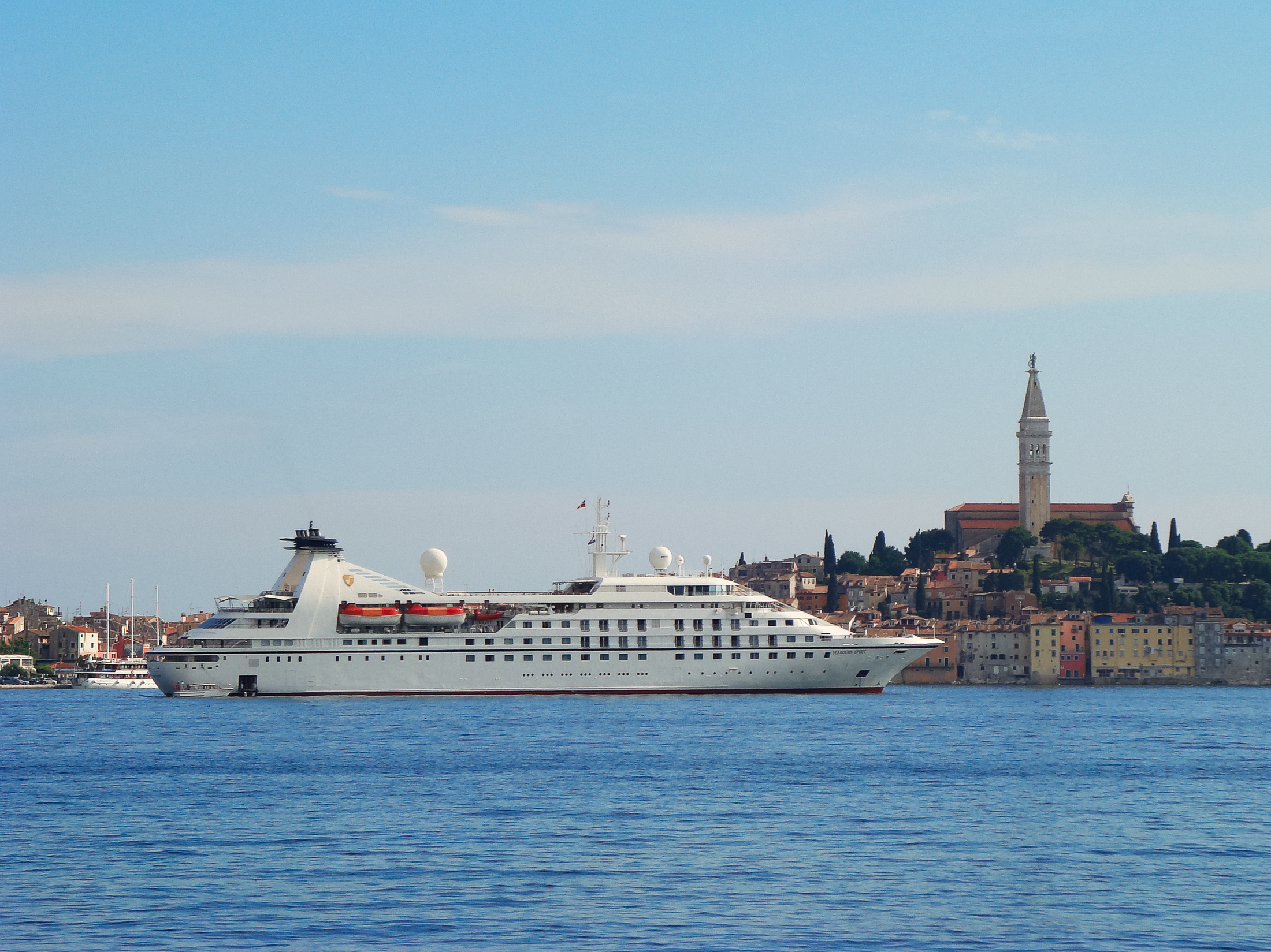 Seabourn Spirit in Rovinj, Croatia